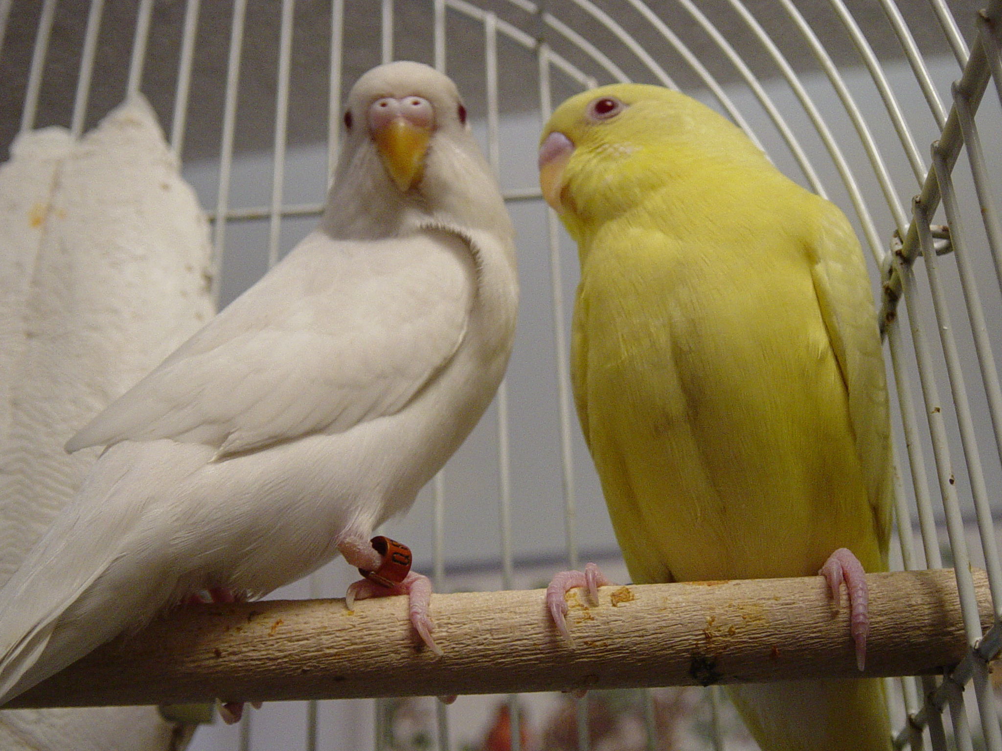 Albino female and lutino male Budgerigars, Melopsittacus undulatus.